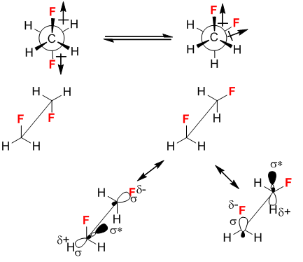 O efeito gauche ou “efeito gauche do fluoreto”